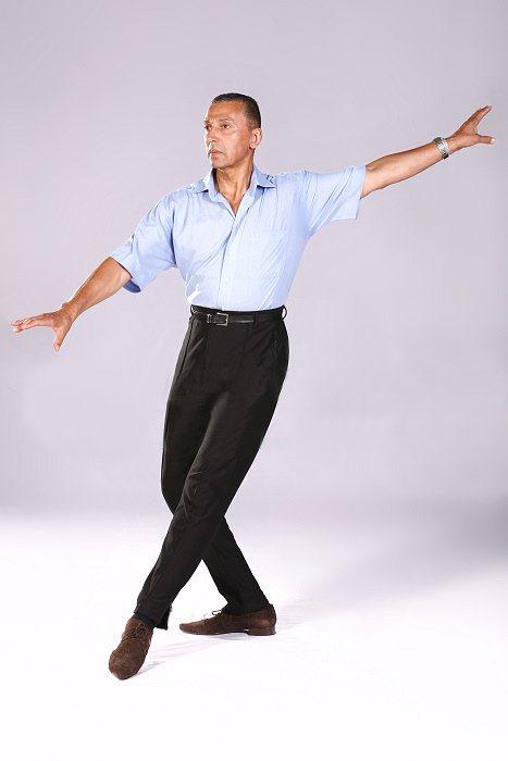 Benjamin Feliksdal - Het Nationale ballet; Royal Ballet of Flanders: ballet/modern/jazz/tap dancer from Netherlands